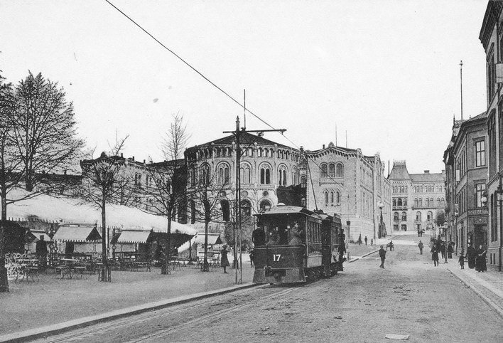 Kristiania Elektriske Sporvei Class A trailer 17 in Stortingsgata.